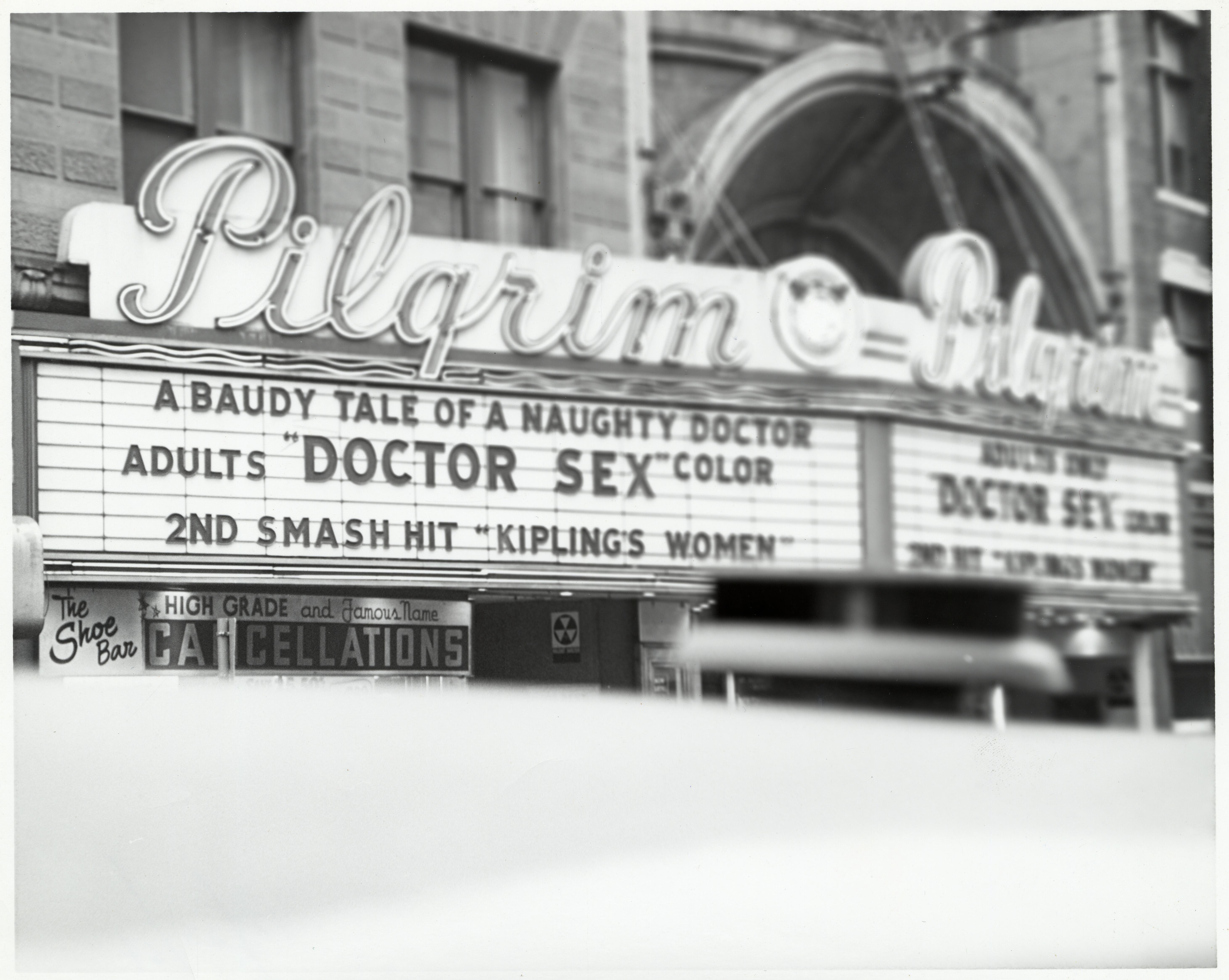 Title: Marquee at Pilgrim Theatre on Washington Street showing Dr. Sex (1964). Creator: City Censor, City of Boston Date: 1964 December 23 Source: City Censorship Files, Mayor John F. Collins records, Collection #0244.001 File name: 244001_0460 Rights: Copyright City of Boston Citation: Mayor John F. Collins records, Collection #0244.001, City of Boston Archives, Boston